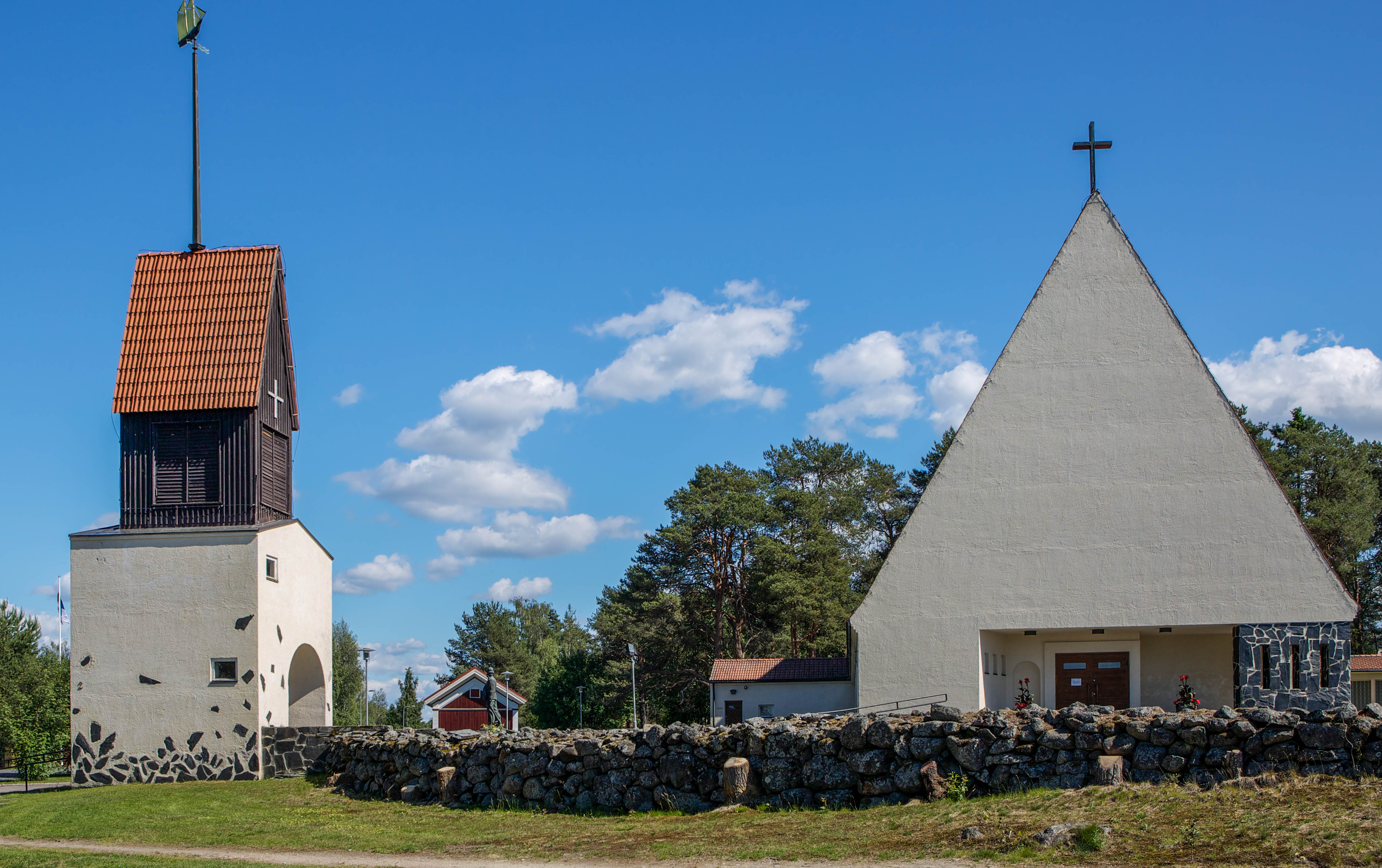 Ii Church in Ii, Finland